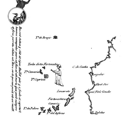 Detail of the Atlantic islands off the African coast in the 1367 portolan chart of the Pizzigani brothers (Domenico and Francesco Pizzigano) of Venice, as reproduced in the 1849 sketch of Edmé François Jomard (1777-1862). This detail depicts the Canary islands and the fictional cluster of St. Brendan.